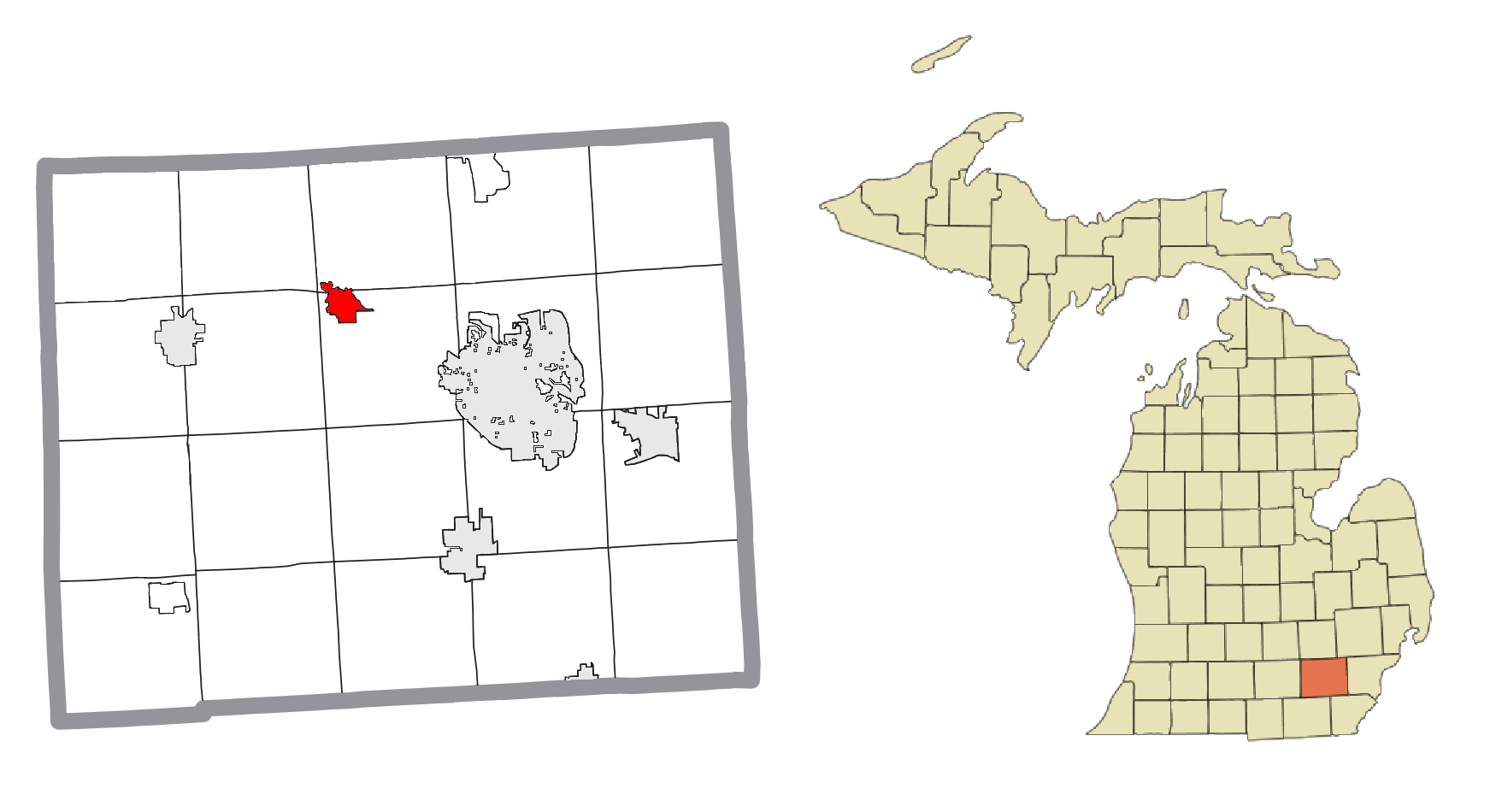 Dexter, MI